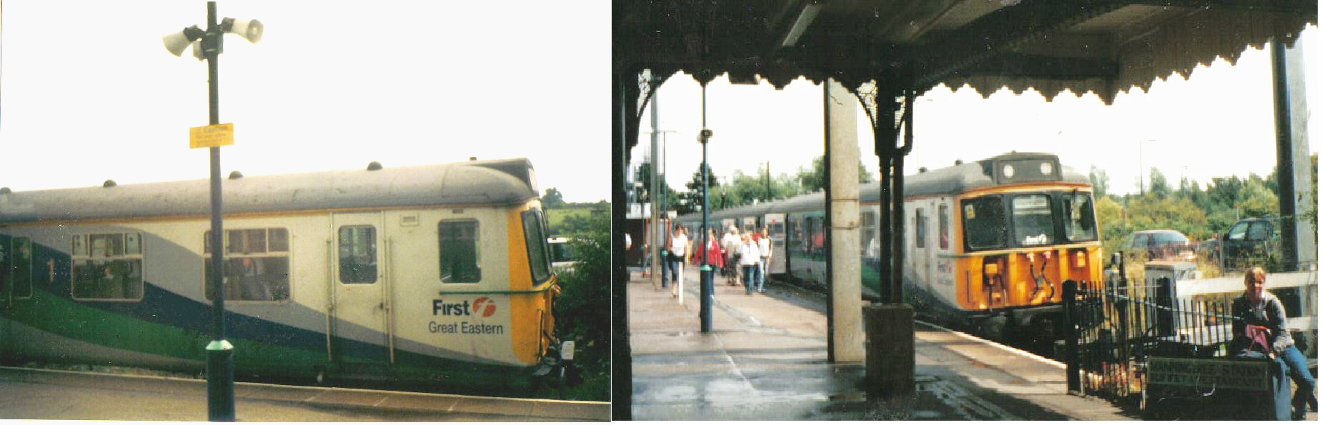 A First Great Eastern 1970's ex-BR British Rail Class 312 EMU at Manningtree station, Essex.